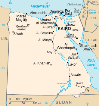 CIA map of Egypt